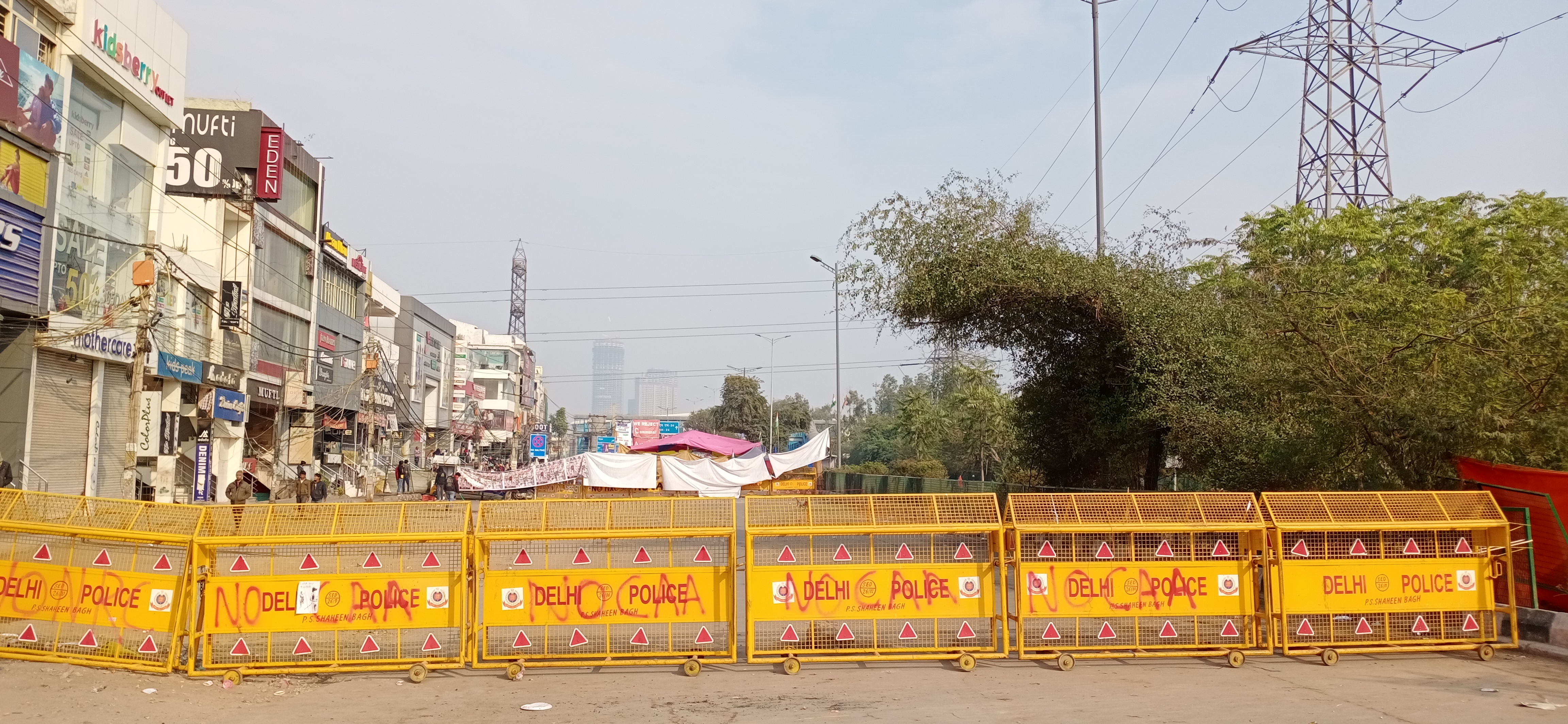 Graffiti on police barricades no nrc caa road blocked for protesters who have been sitting for over three weeks in background New Delhi 7 Jan 2020